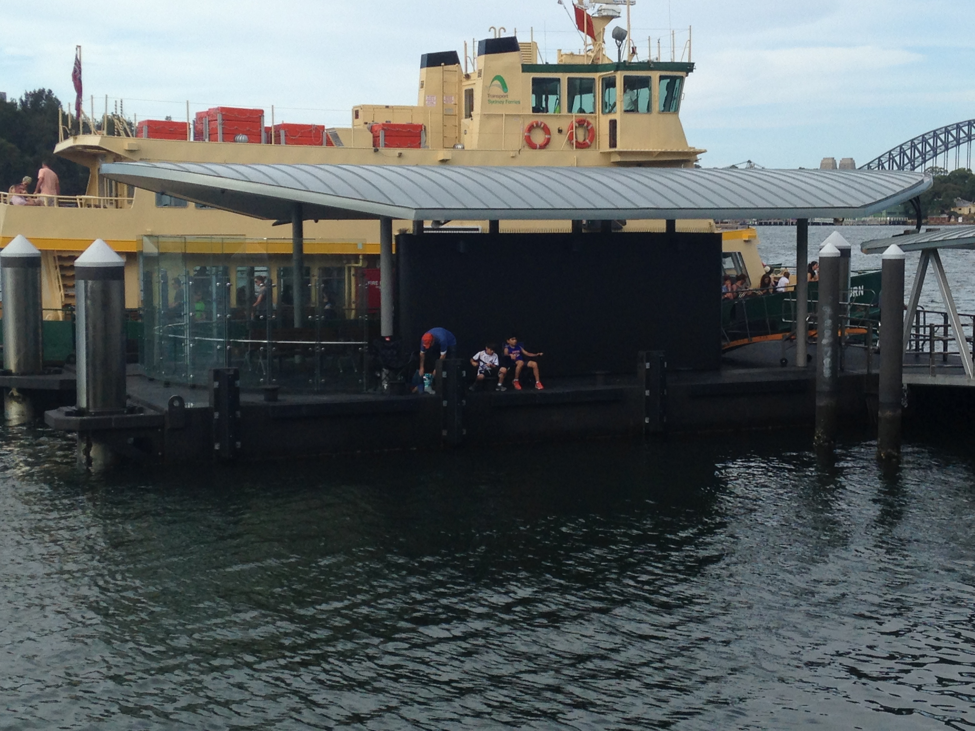 Upgraded wharf.